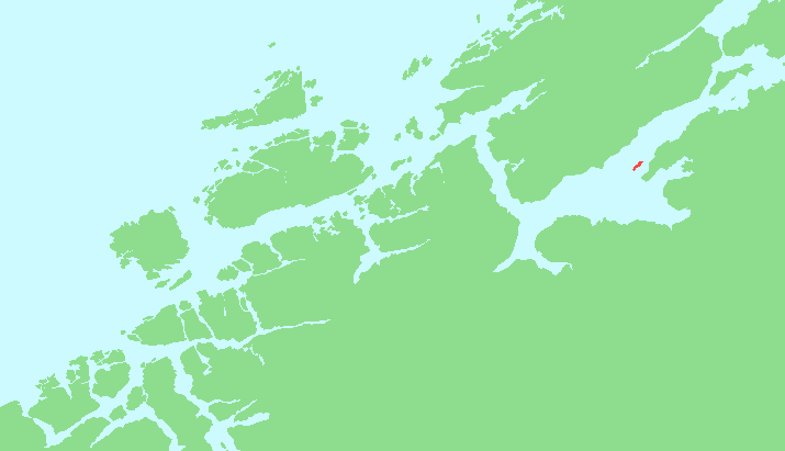 Locator map of Tautra, Sør-Trøndelag, Norway